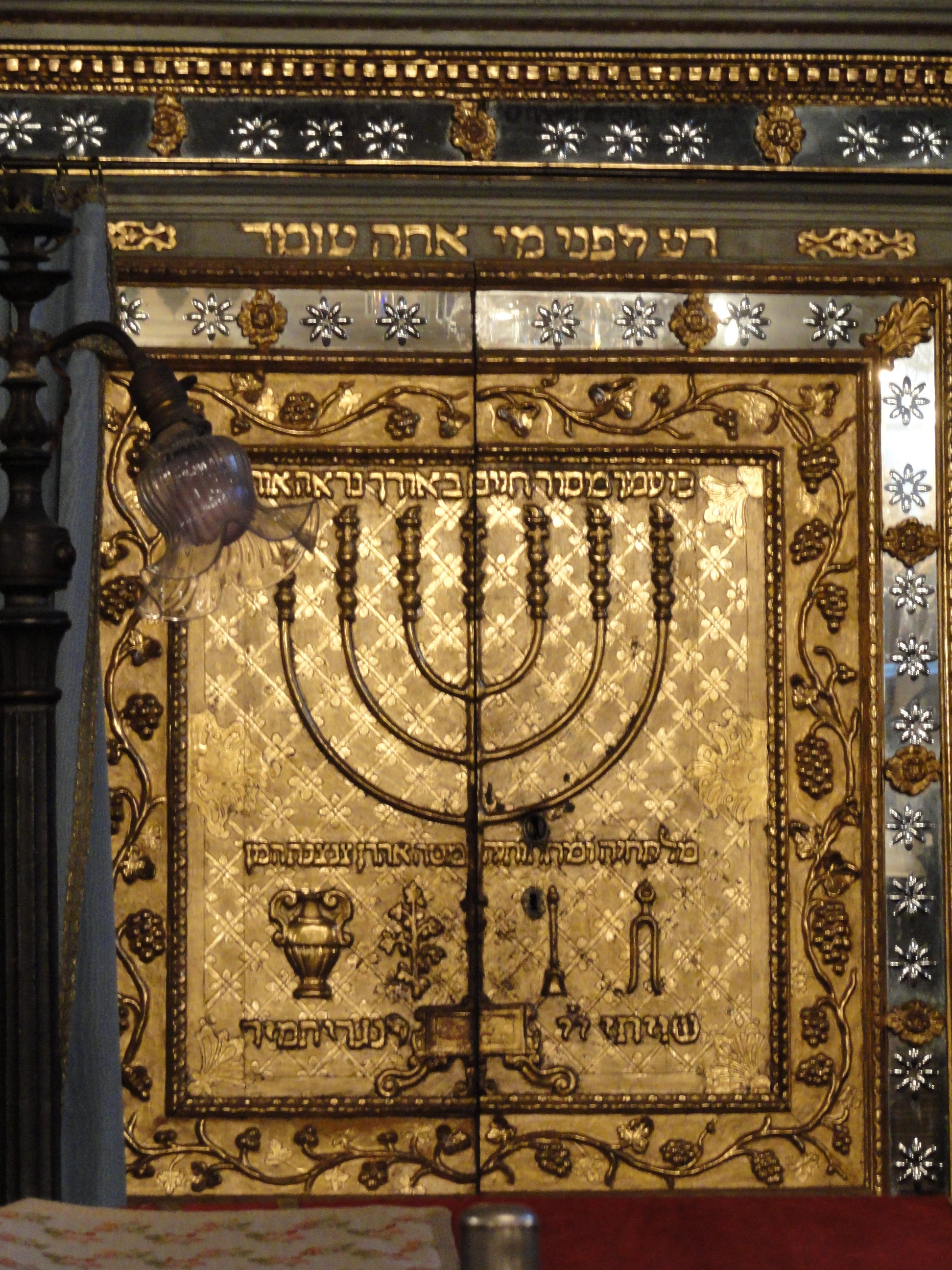 Synagogue of Cuneo (Piemonte - Italy) - The Torah Ark - golden gates